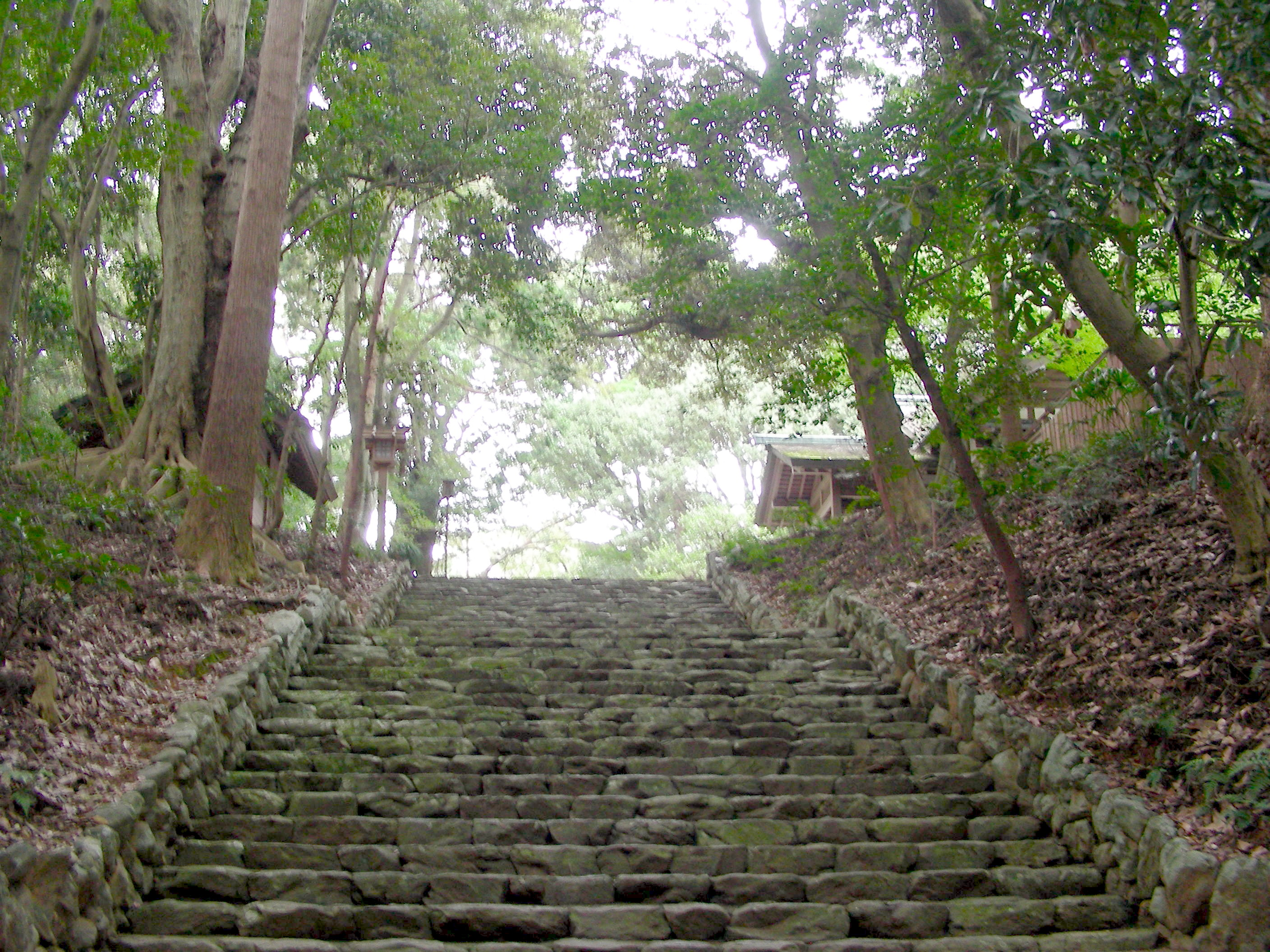 The Betsugu Yamatohime-no-miya Sanctuary of Kotaijingu(Naiku) at Ise city, Mie Prf., Japan.